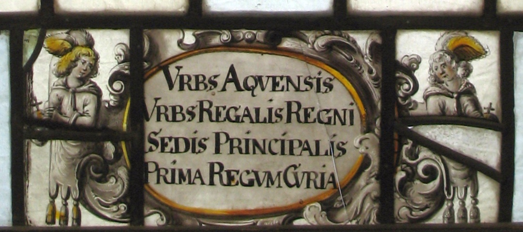 Part of a stained glass from 18th c. showing the first part of the so-called Aachen hymn from 12th c., in castle Frankenberg in Aachen, Germany